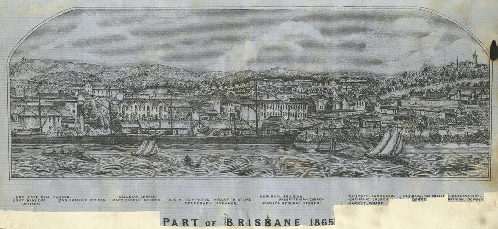 Early engraving, part of an panorama of the town of Brisbane viewed from the River Landmarks such as One Tree Hill (Mount Coot-tha), the Gaol, and the Observatory (The Windmill) are included. See also APA-059-01-0008.